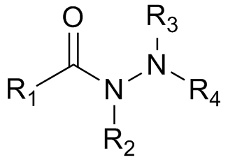 hydrazide